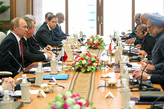 2012-12-24 President of Russia Vladimir Putin made an official visit to India. Russian-Indian talks.